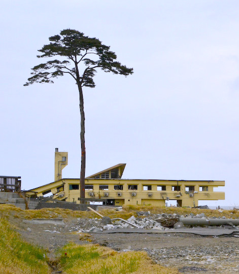 The collapsed Rikuzentakata Youth Hostel and the Miracle Pine Tree of thirty meters in height, the sole survivor of about 70,000 pine trees in Takata-Matsubara, Rikuzentakata, Iwate, after the 2011 East Japan Great Earthquake and its tsunami